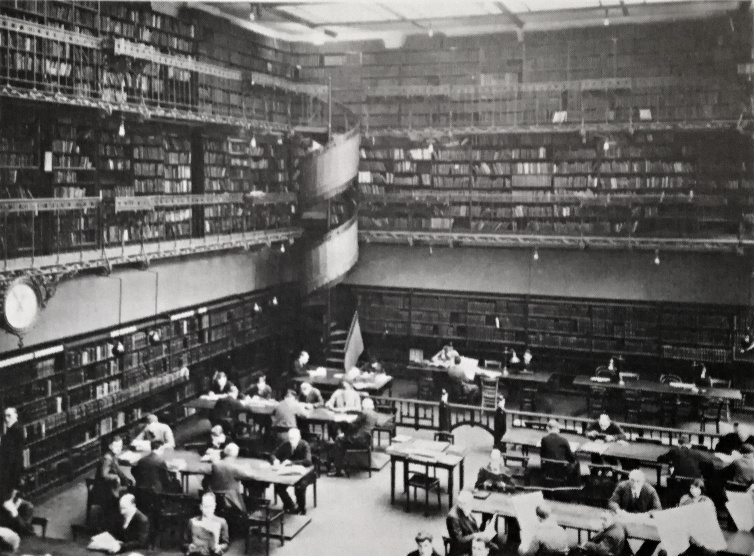 The public library of Charlottenburg opened in 1901-09-09.